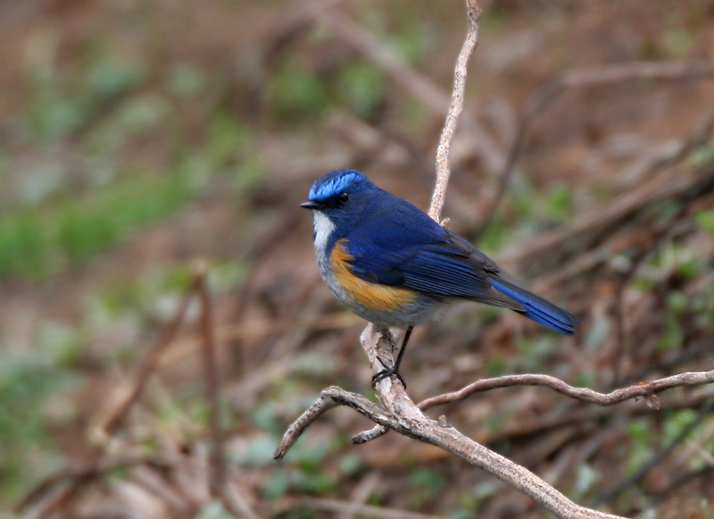 Himalayan Bluetail Tarsiger rufilatus in Kullu District of Himachal Pradesh, India.